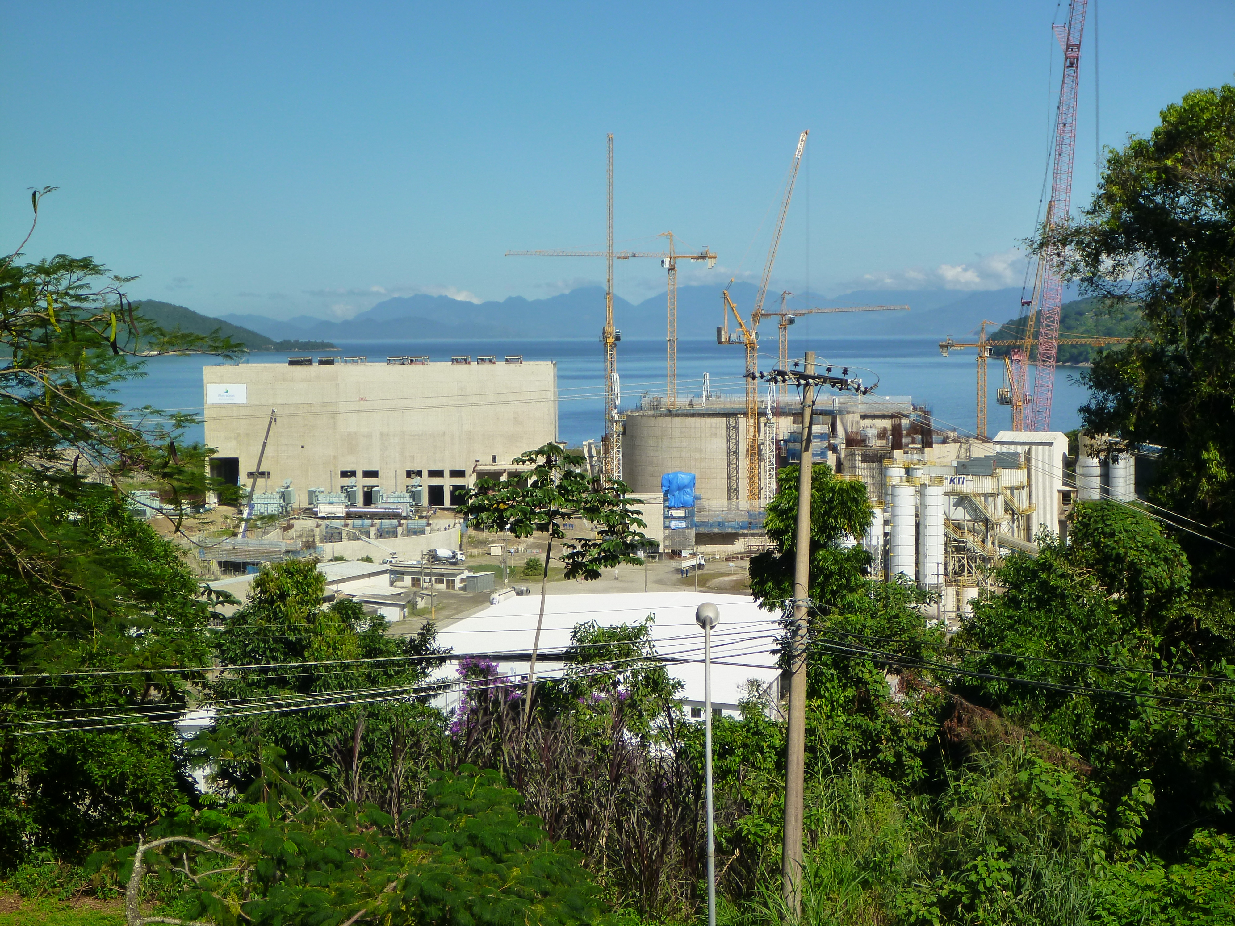 Contruction site of the nuclear power plant Angra III in May 2015 from the balcony of the visitor centre